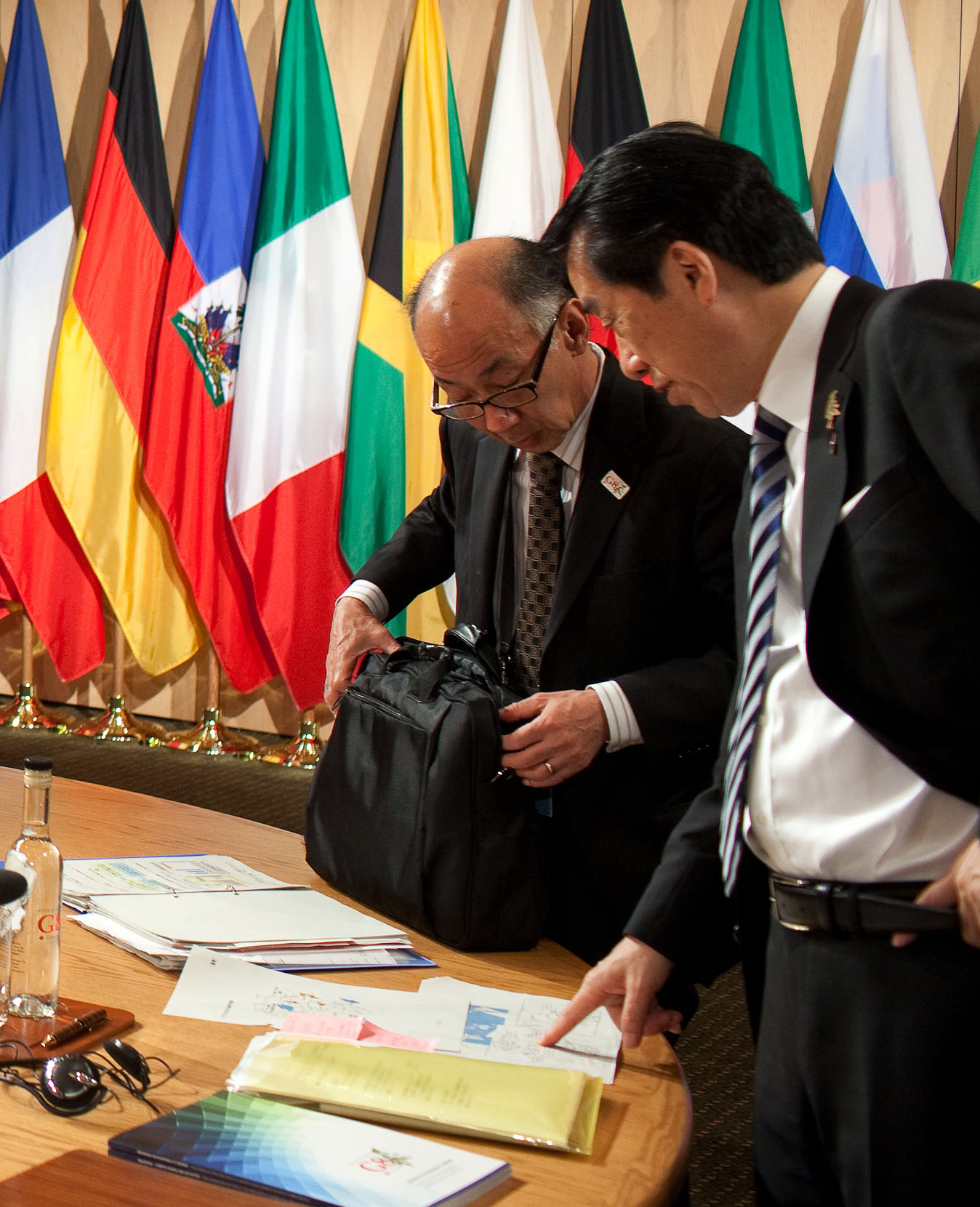 The leaders of the Group of Eight talked at the 36th G8 summit in Muskoka District Municipality, Ontario Province on June 25, 2010. Barack Obama, President, talked with Angela Merkel, Chancellor, and David Cameron, Prime Minister. Naoto Kan, Prime Minister, talked with a official.